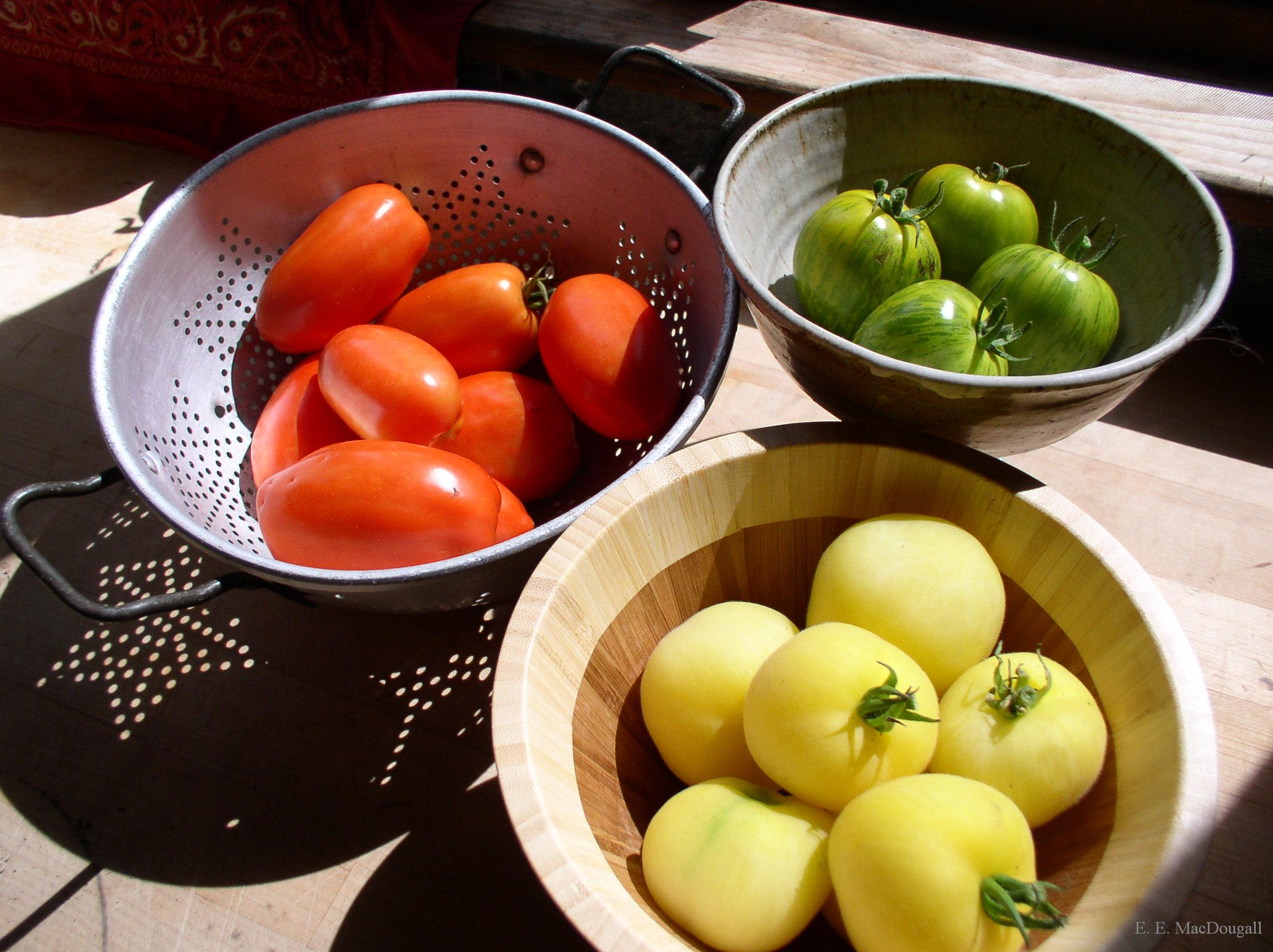 Three bowls of tasty tomatoes.